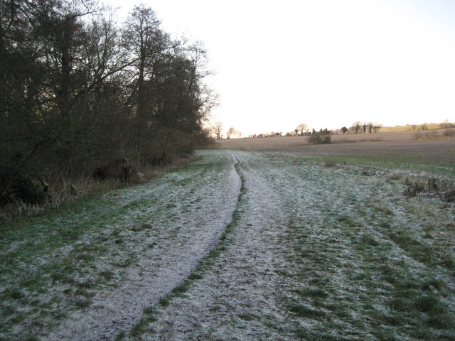 Great Shefford: Former Lambourn Valley Railway This is the trackbed of the former Lambourn Valley Railway which closed to regular passenger and freight traffic on 4 January 1960, fifty years previously to the day bar one that the photograph was taken. This is taken looking away from the site of the station, towards Lambourn, across an area that had a goods siding. The footpath leads to East Garston.